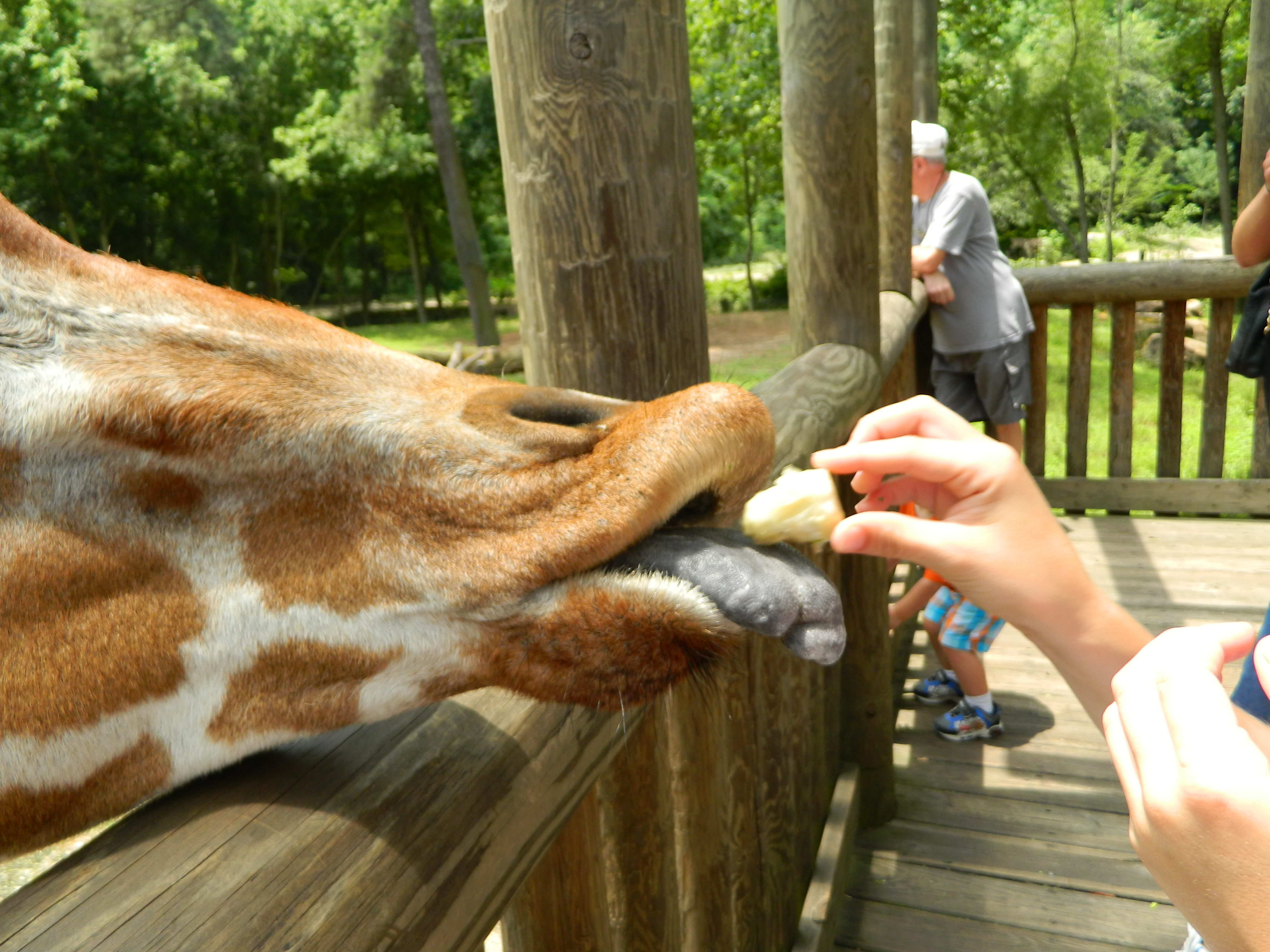 This is a picture of a giraffe being fed a lettuce core at Riverbanks Zoo in Colombia, South Carolina.